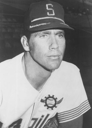 Professional baseball player John O'Donoghue